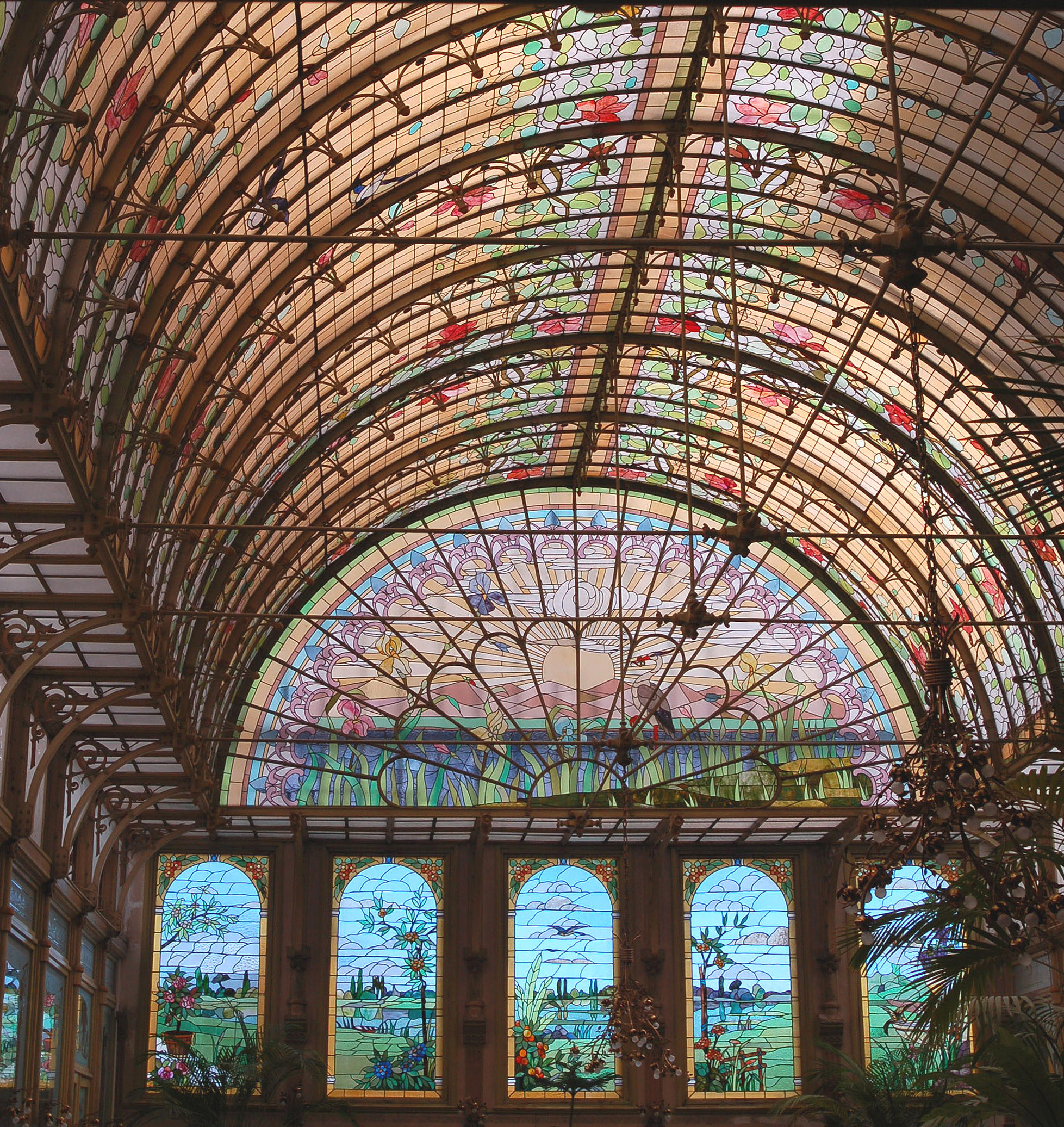 winter garden in art nouveau built in 1900, Onze-Lieve-Vrouw-Waver Architect unknown (!).